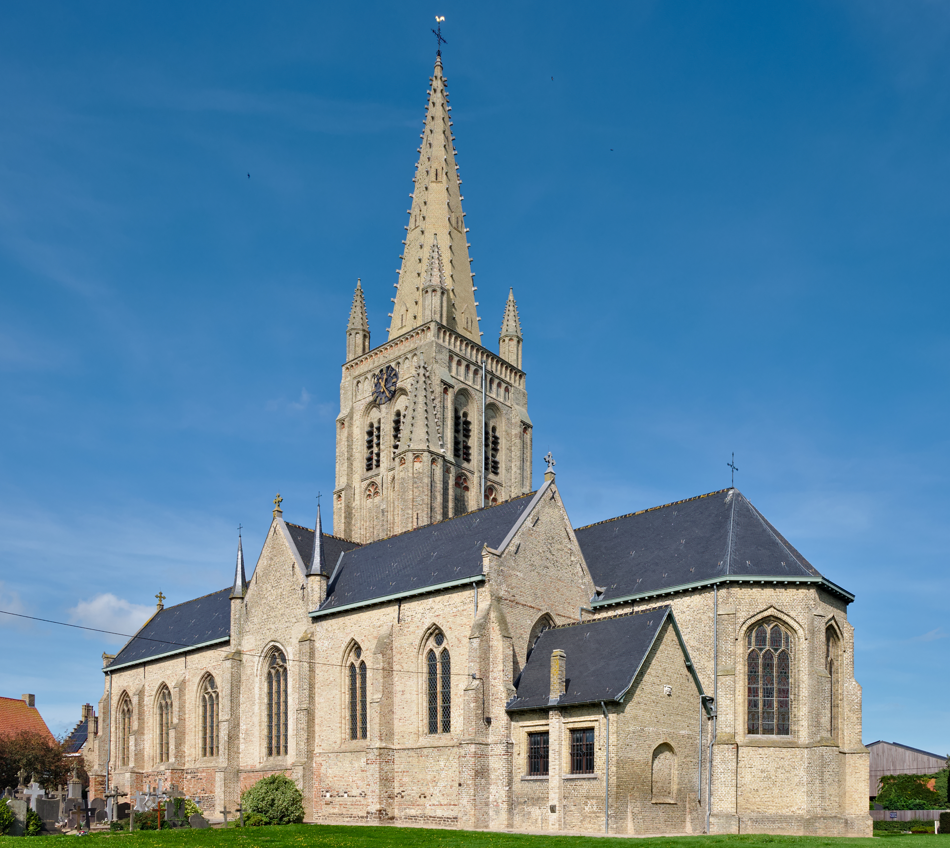 Sint-Bartholomeuskerk, church in Pollinkhove (Lo-Reninge, Belgium) This photo of immovable heritage has been taken in the Flemish Region